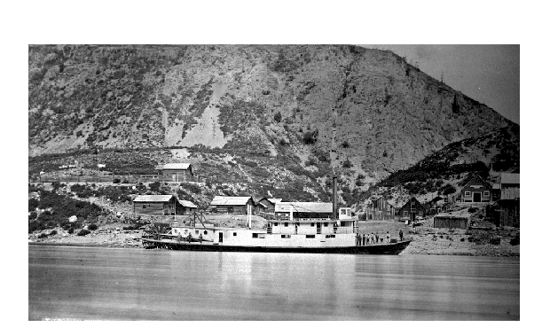 Photo taken 1884 Photograper Unknown BC Archives #A-06750 [1]